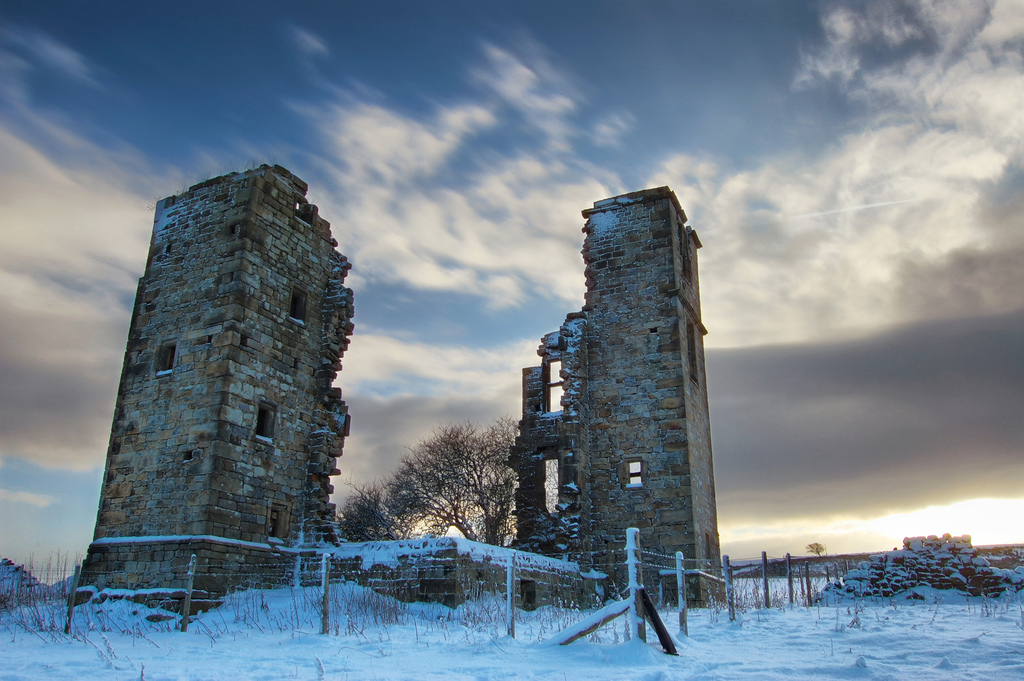 These decaying walls are the remains of Dob Park Lodge, a once-proud building which is falling apart at the seams. It is perched on high ground in the Yorkshire Dales in a spot which commands a fine view of the Washburn Valley's rolling landscape. The original photo is online in full resolution in this set of images.